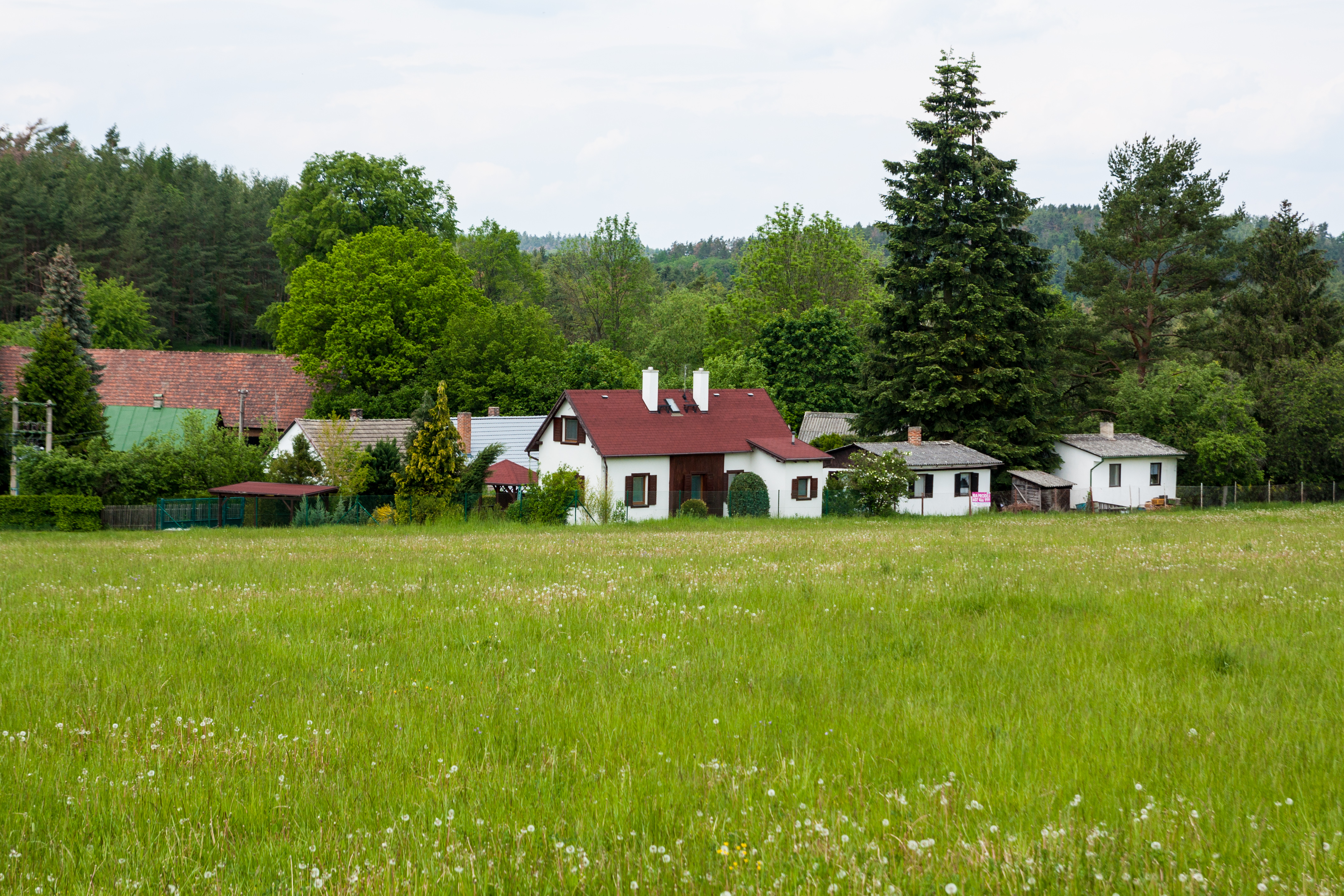 View at village Lhotka, Benešov District, Central Bohemian Region, Czechia